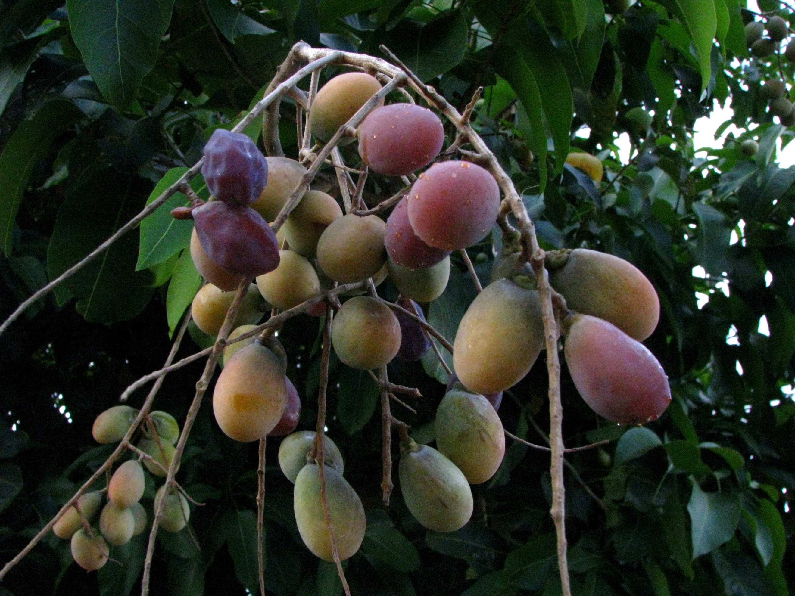 Lonomea, Āulu, or Oahu soapberry Sapindaceae Endemic to the Hawaiian Islands (Kauaʻi & Oʻahu only) Oʻahu (Cultivated) The roundish or oval fruits resemble dates and smell like figs or raisins, but are not edible. The very hard blackish seeds were used by early Hawaiians for medicinal purposes and to string for gorgeous permanent lei. Seeds lei are still made today.